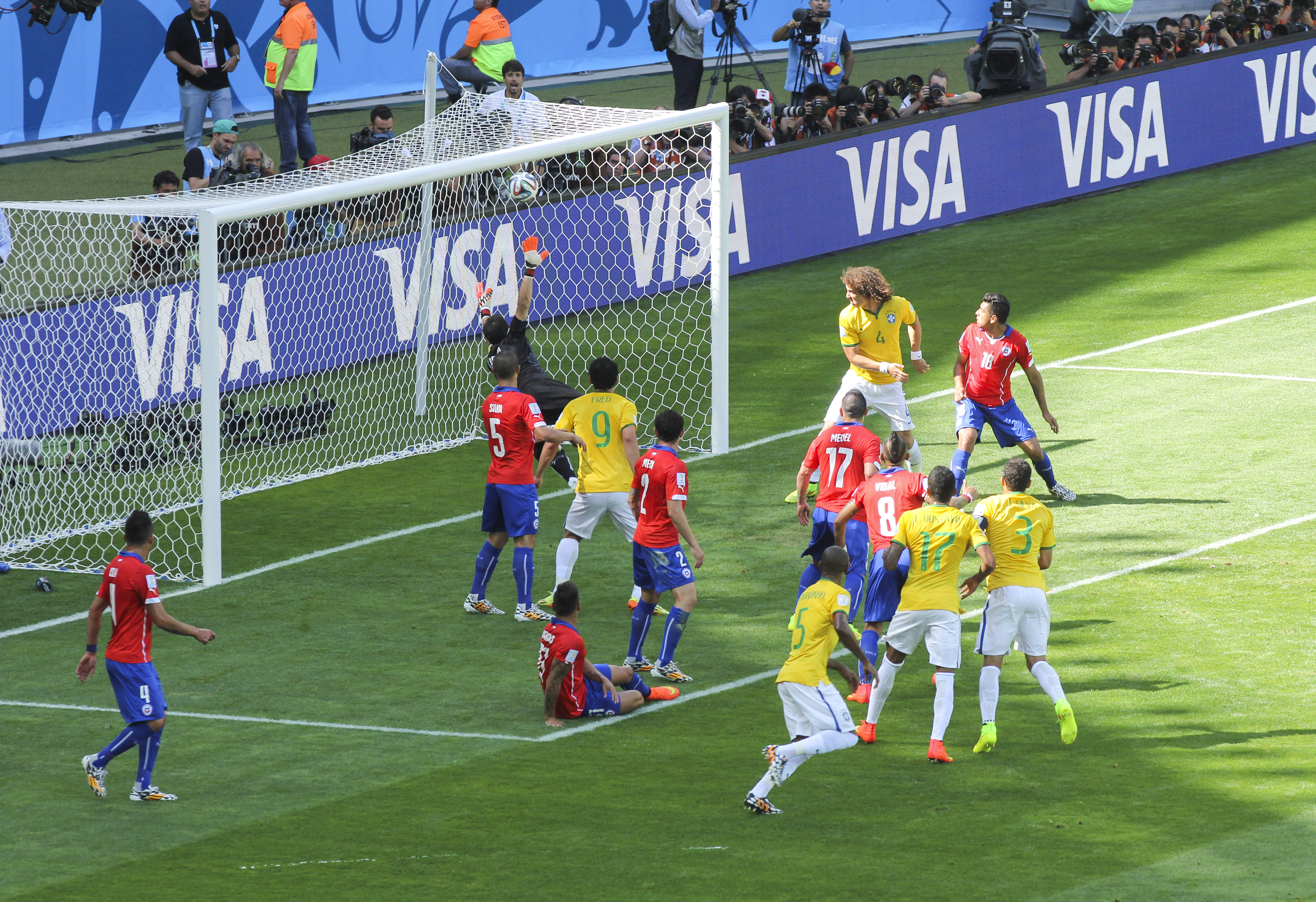 Brazil vs. Chile in Mineirão